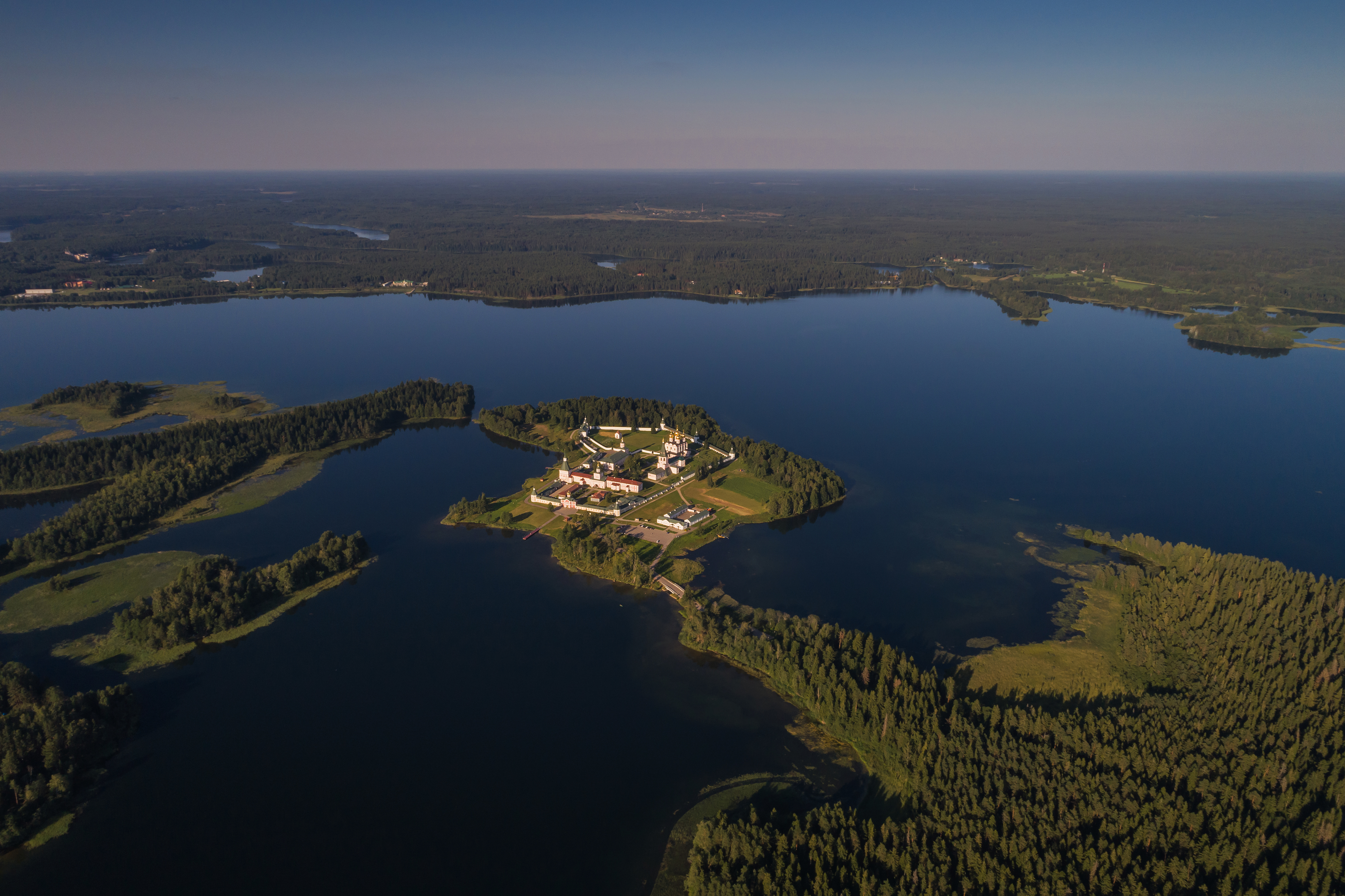 Aerial view of Iversky Monastery in Valdai, Novgorod Oblast, Russia.